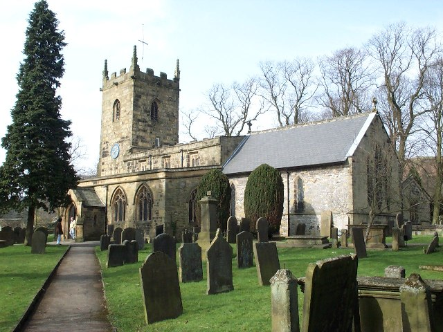 Eyam Church. The Church in Eyam contains detailed displays and accounts of when the village went into voluntary quarantine when "The Plague" was imported in infected cloth from London in 1665.